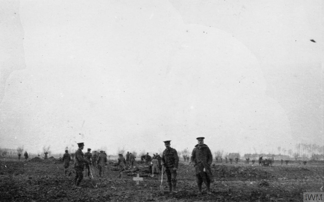 The Christmas Truce on the Western Front, 1914 British and German troops meeting in No-Man's Land during the unofficial truce. (British troops from the Northumberland Hussars, 7th Division, Bridoux-Rouge Banc Sector). Burying those killed in the attack of 18 December.